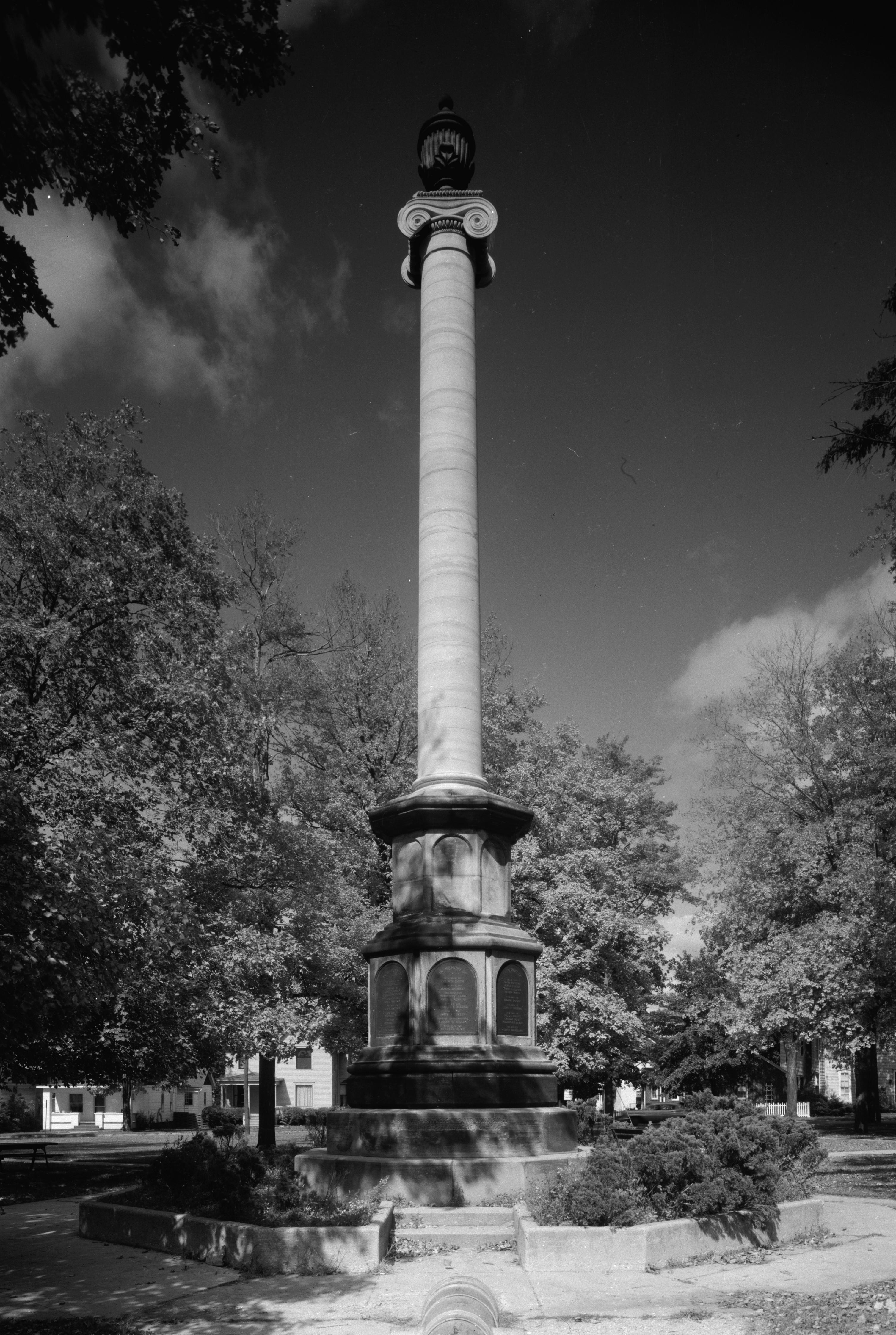 Southern side of the Civil War Memorial in Monument Park in Adrian, Michigan, United States. Once a part of the Bank of Pennsylvania building that was built in 1801 and demolished in 1868, it was erected as a Civil War monument in 1870. It is listed on the National Register of Historic Places.